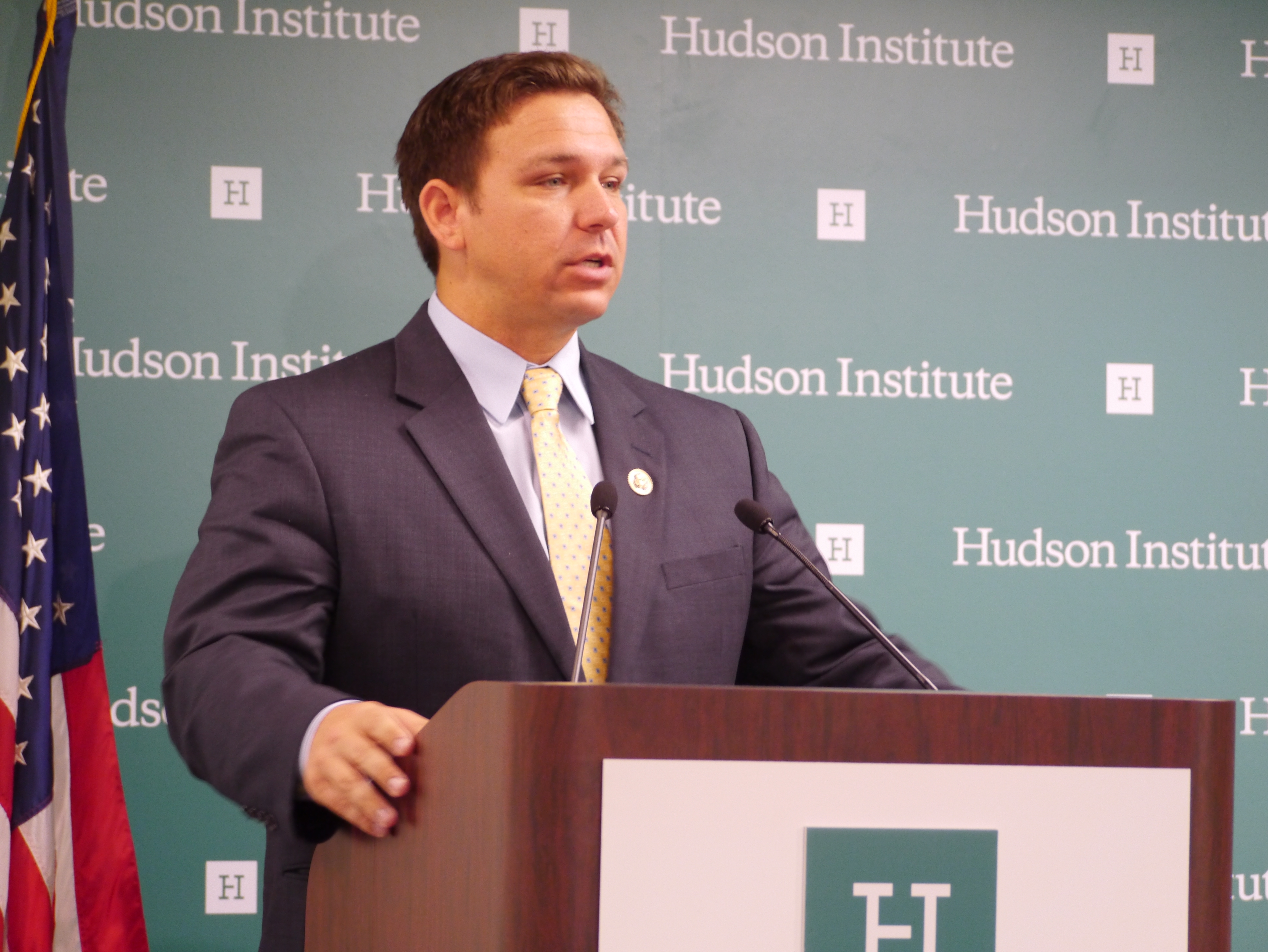 Hudson Institute hosted a conversation with Representative Ron DeSantis (R-FL), Dr. David Cooper, Michael Eisenstadt, and Dr. Thomas Karako on the extent of Iran’s missile program and its relationship to Iran’s nuclear program. Hudson Adjunct Fellow Rebeccah Heinrichs moderated the event.